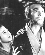 Osamu Takizawa and Nobuko Otowa in 1953 Japanese movie Yoakemae (Before the Dawn).